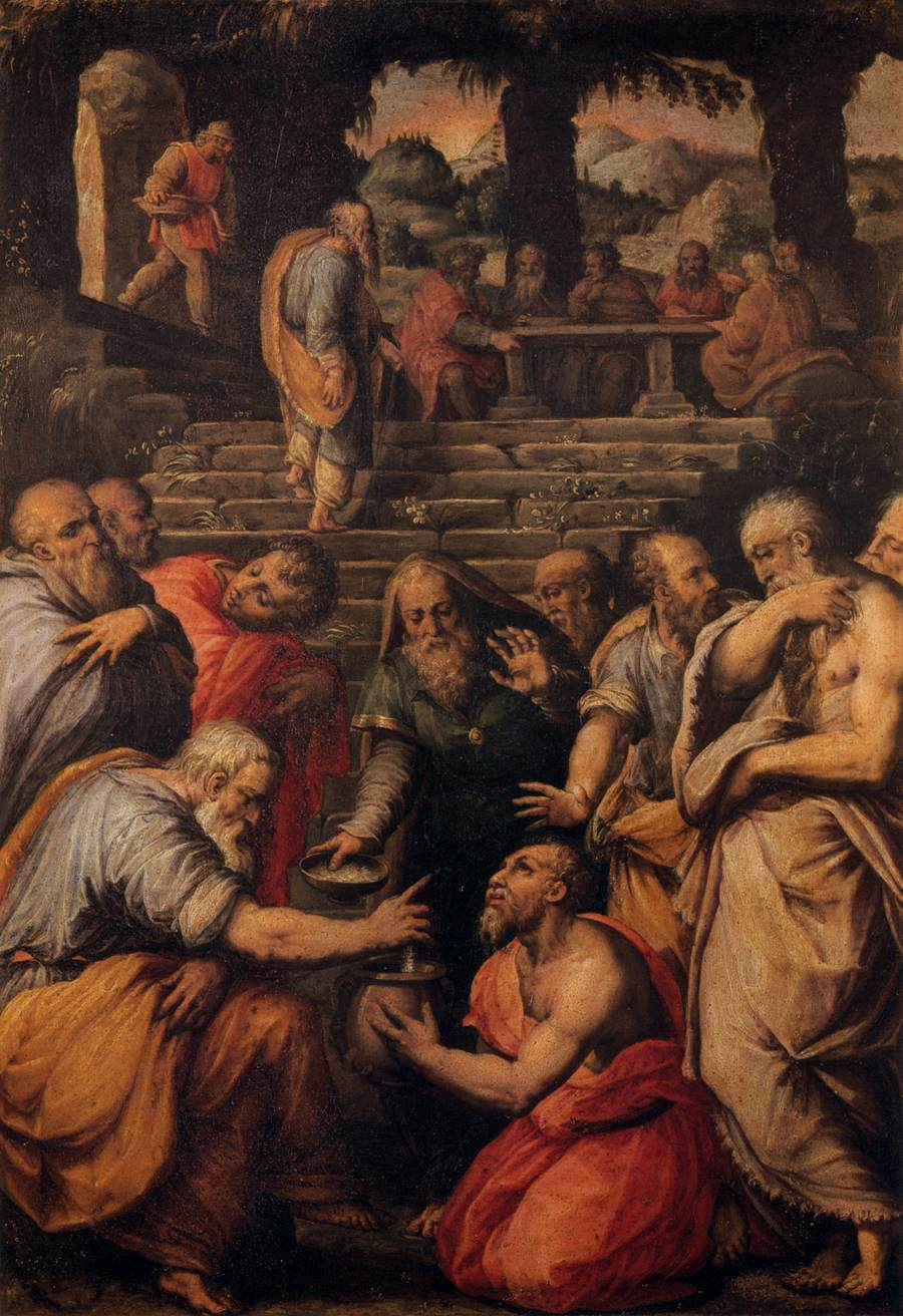 And Elisha came again to Gilgal when there was a famine in the land. And as the sons of the prophets were sitting before him, he said to his servant, “Set on the large pot, and boil stew for the sons of the prophets.” One of them went out into the field to gather herbs, and found a wild vine and gathered from it his lap full of wild gourds, and came and cut them up into the pot of stew, not knowing what they were. And they poured out some for the men to eat. But while they were eating of the stew, they cried out, “O man of God, there is death in the pot!” And they could not eat it. He said, “Then bring flour.” And he threw it into the pot and said, “Pour some out for the men, that they may eat.” And there was no harm in the pot. (2 Kings 4:38-41)